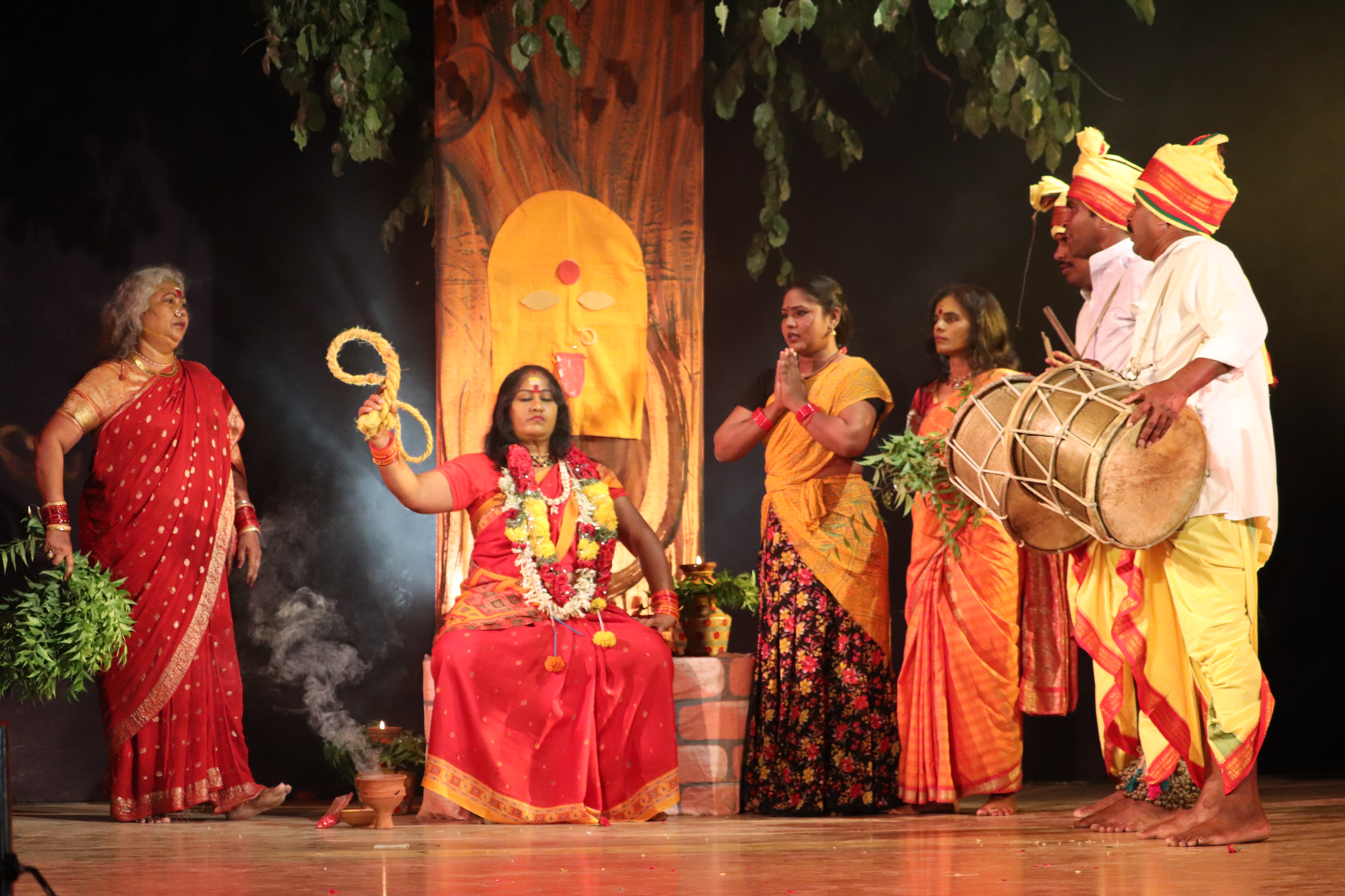 Tegaram Theatre Play Performance in Nandi Theatre Festival - 2017